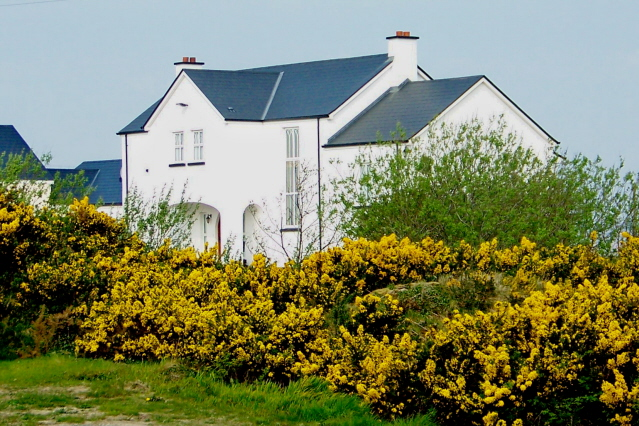 Daniel O'Donnell's home in Meenbannad area Daniel O'Donnell moved to this smaller home in the Meenbannad area of the Rosses after selling his very large home at the north end of Cruit Island.